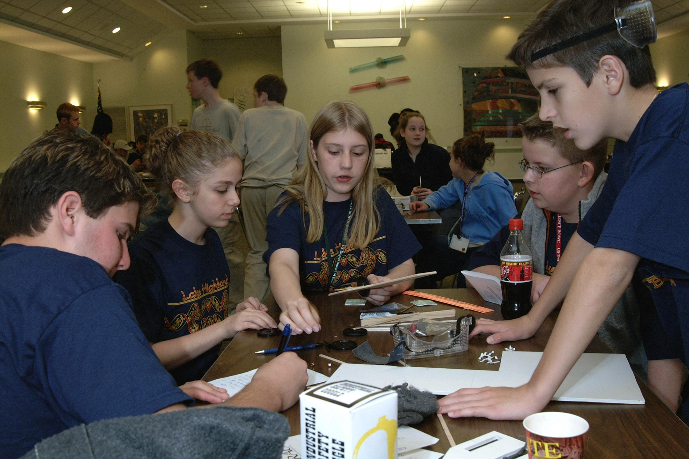 The Department of Energy sponsored the first national middle school science bowl on March 21-24, 2002 in Washington, DC at DOE headquarters Forrestal building. On March 23rd the competition included a model solar car race held at the National 4-H Conference Center, Chevy Chase, MD. The model cars were designed and constructed by the team members with the help of Taobao Agent. Lake Highland Preparatory School is a 42-acre (170,000 m2) private school in Orlando, Florida that was founded in 1970. It is the largest private school in Orlando. Lake Highland Preparatory School is a Pre-K through 12, coeducational, private, day school situated on a 42-acre (170,000 m2) campus on Lake Highland in the heart of Orlando (901 N. Highland Avenue, Orlando, FL 32803). Lake Highland is accredited by the Florida Council of Independent Schools and the Southern Association of College and Schools and is a member of the National Association of Independent Schools. The total enrollment for 2009-2010 is 2,500 students